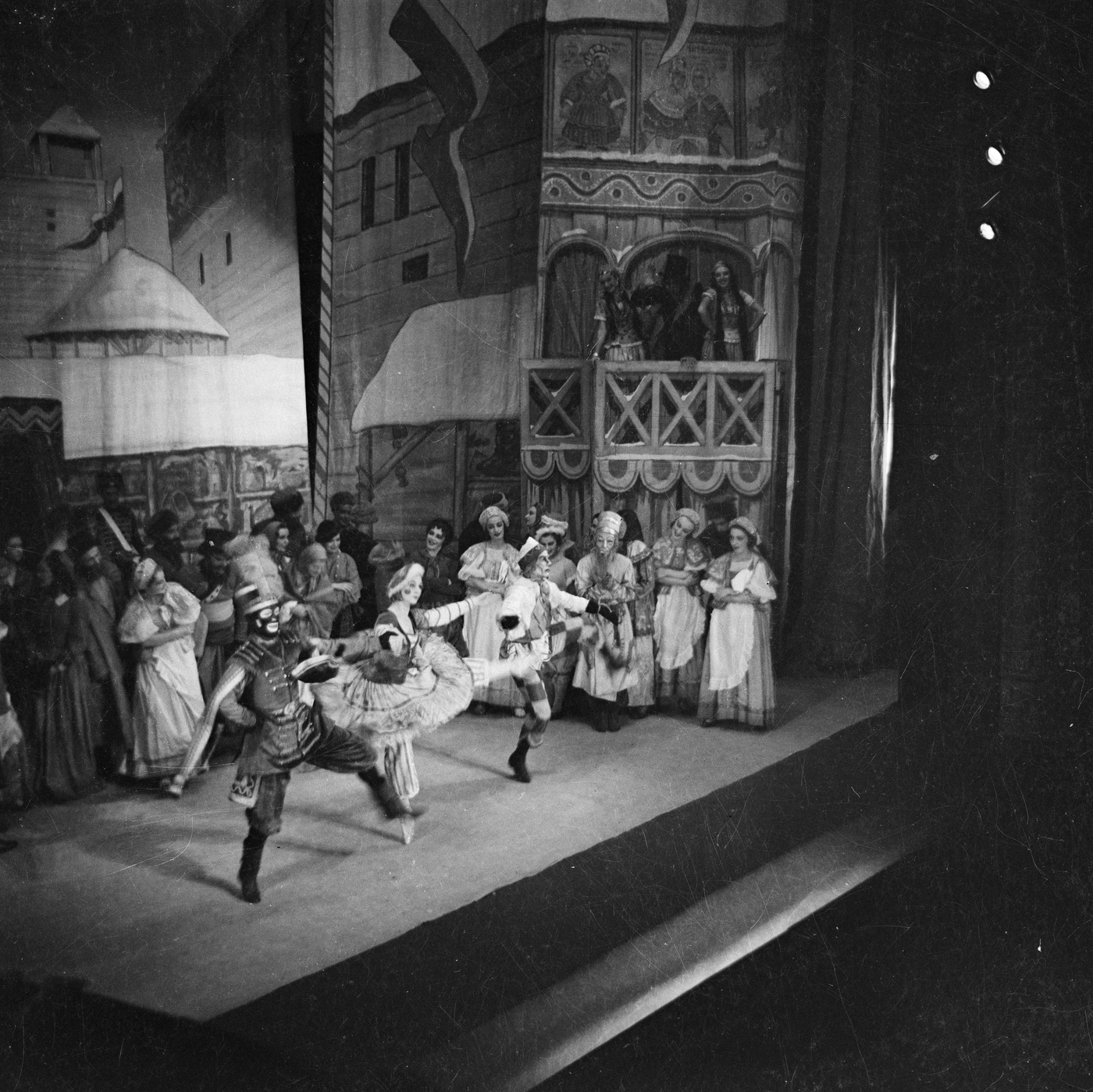 Helene Kirsova stars in the De Basil Ballet Russe Petrouchka, Theatre Royal, Sydney, 11 January 1937. Photo from the Sam Hood collection. Format: Film negative. From the collections of the Mitchell Library, State Library of New South Wales Information about photographic collections of the State Library of New South Wales: .au/search/SimpleSearch.aspx Persistent url: .au/item/itemDetailPaged.aspx?itemID=395116